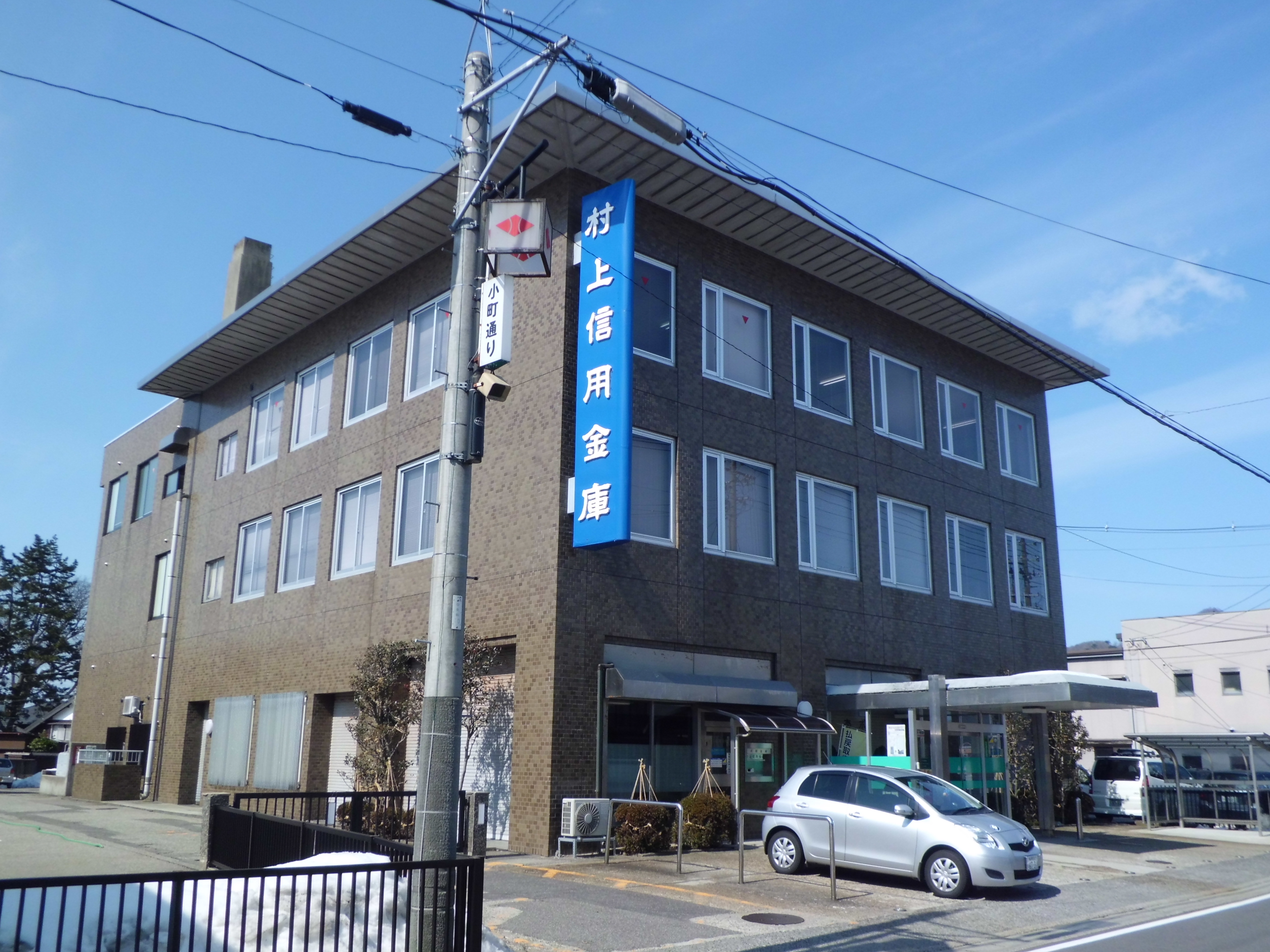 Head office of Murakami Shinkin Bank